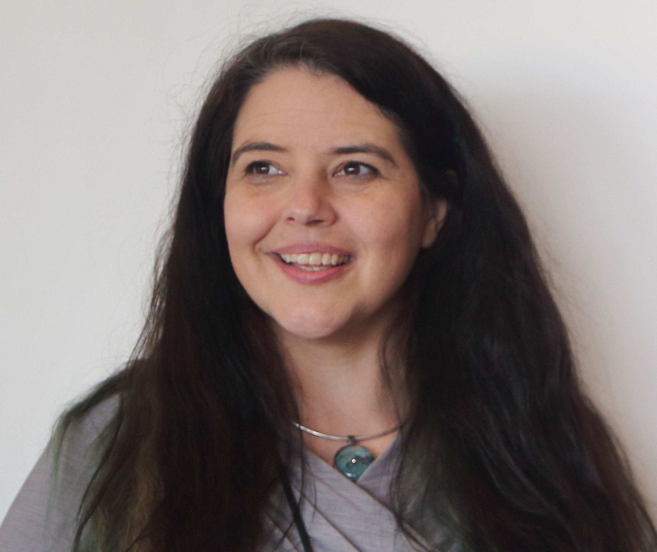 Dr Pamela L Gay at Skepticon 2018, the Australian Skeptics' national convention.